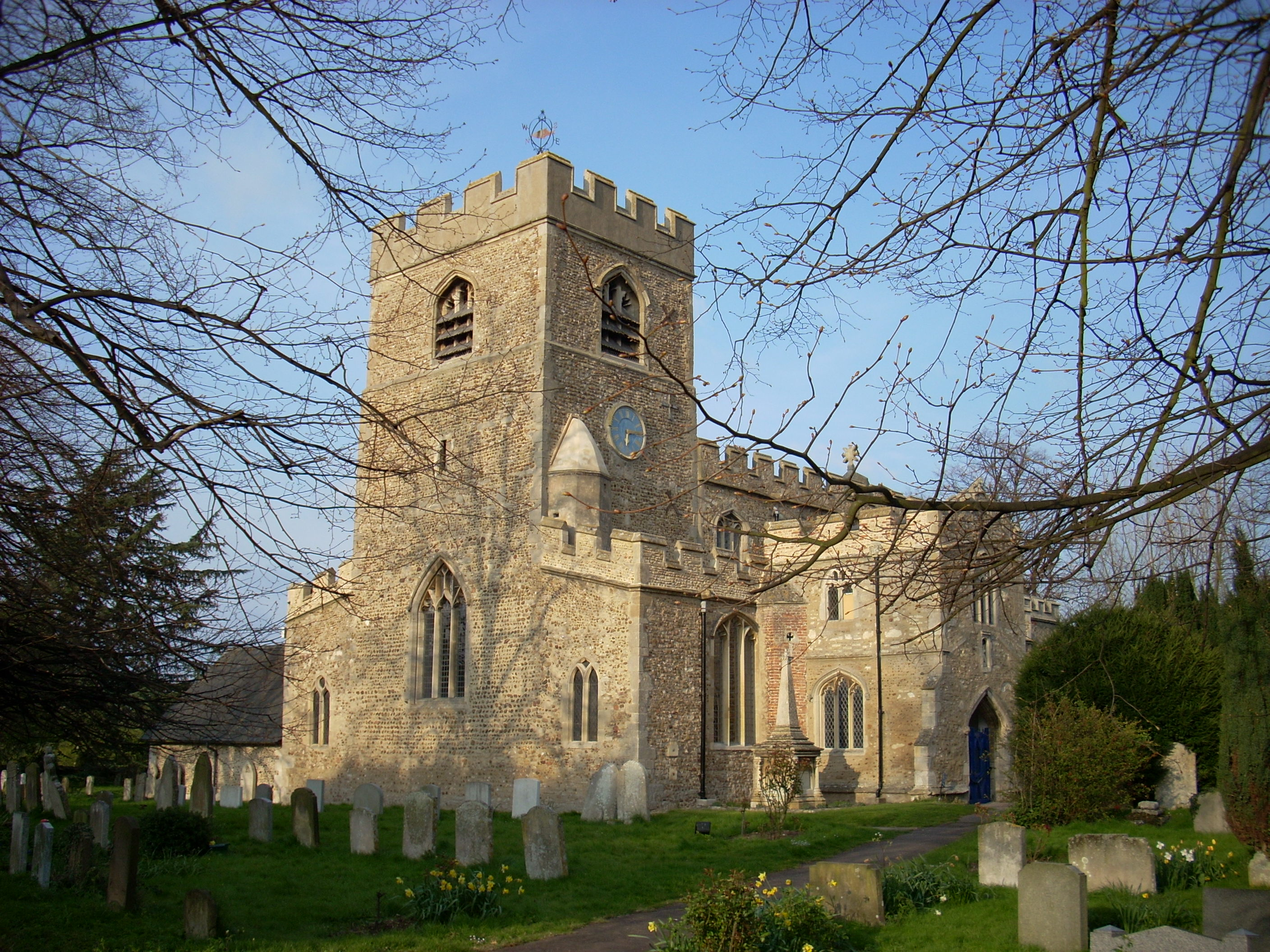 Church of St Andrew, Girton, Cambridgeshire